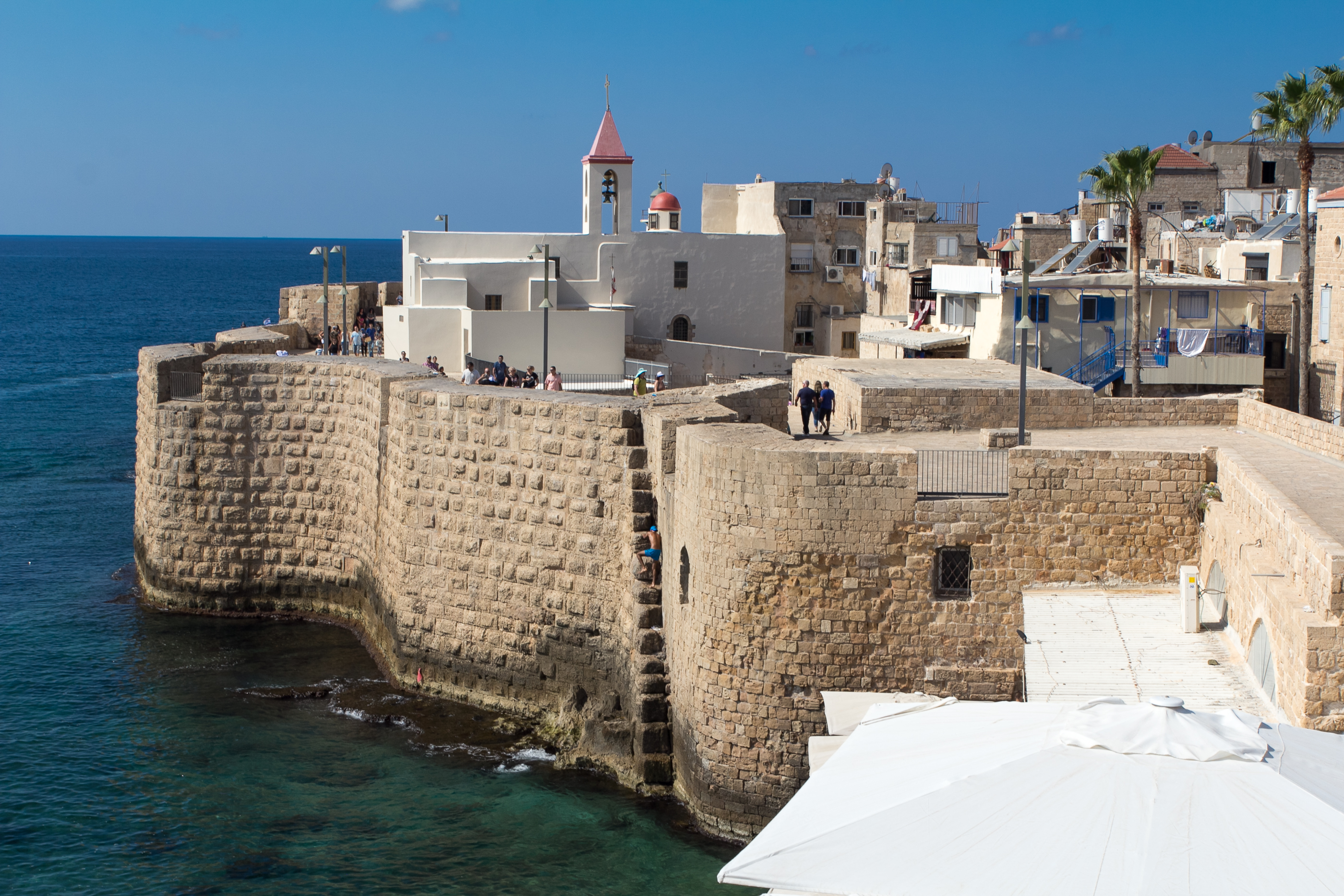 St. John Church above Acre's southern sea wall, Acre, Israel